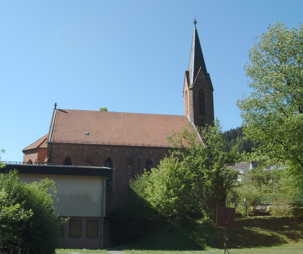 Church in Wilhelmsfeld